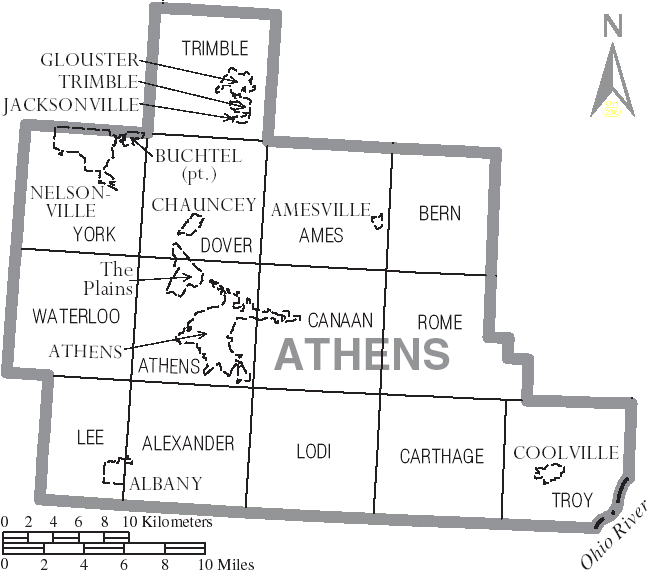 Map of Athens County, Ohio, United States with township and municipal boundaries